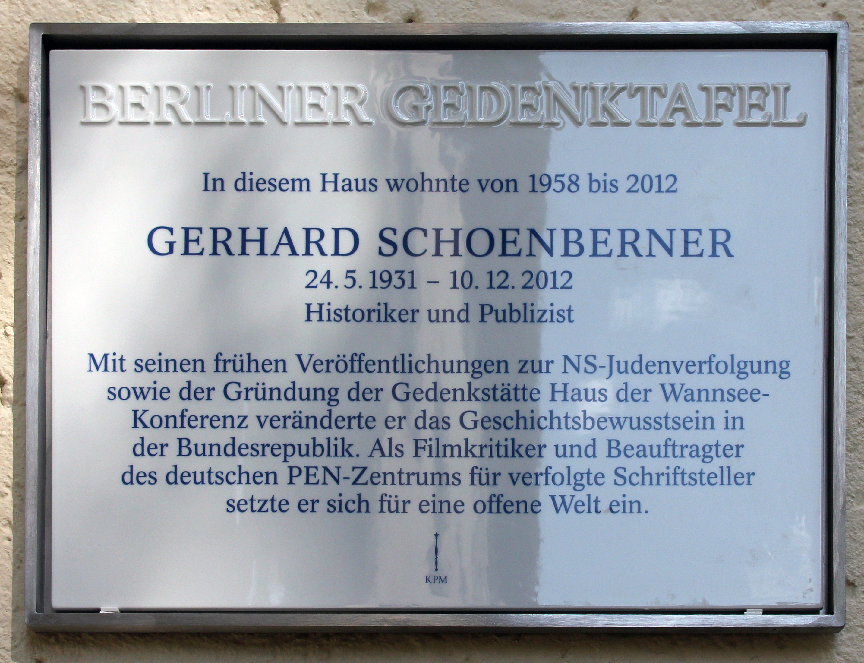 Berlin memorial plaque, Gerhard Schoenberner, Selmaplatz 5, Berlin-Zehlendorf, Germany